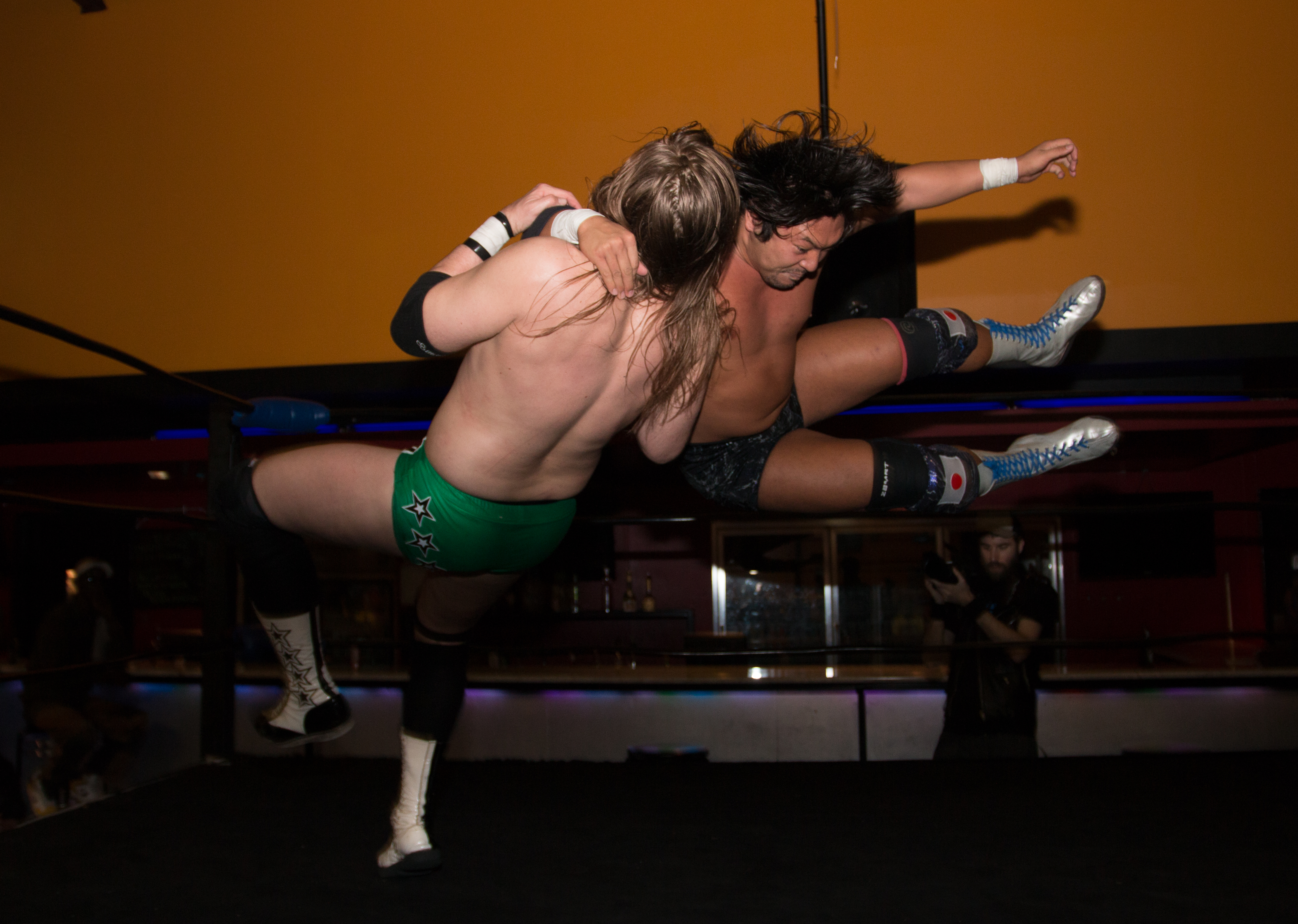 Takaaki Watanabe (right) hitting a clothesline on Chris Hero at a Smash Wrestling show in Mississauga, ON